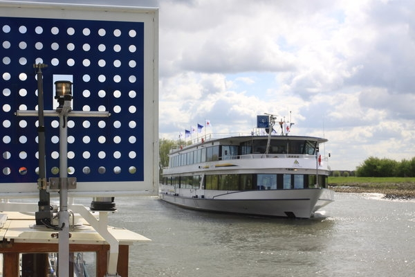 Blue sign with flashing light, vertically placed as sign that two barges starboard to starboard meet each other in the left-hand traffic